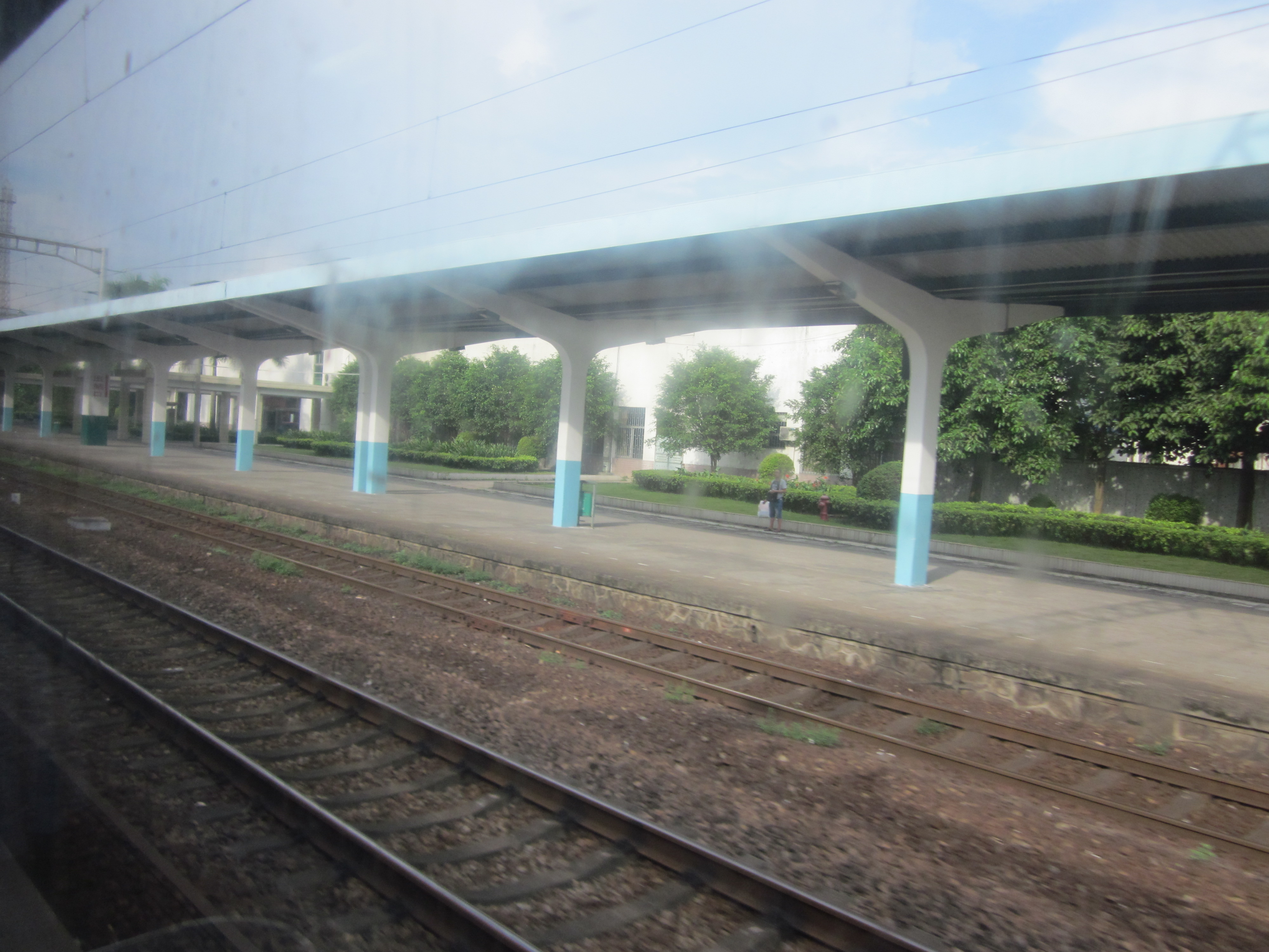 河源站月台